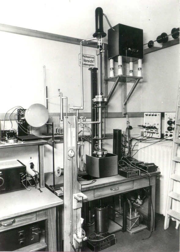 first realized Scanning Electron Microscope with high resolution from Manfred von Ardenne 1937 with electron beam diameter of about 10 nm on target